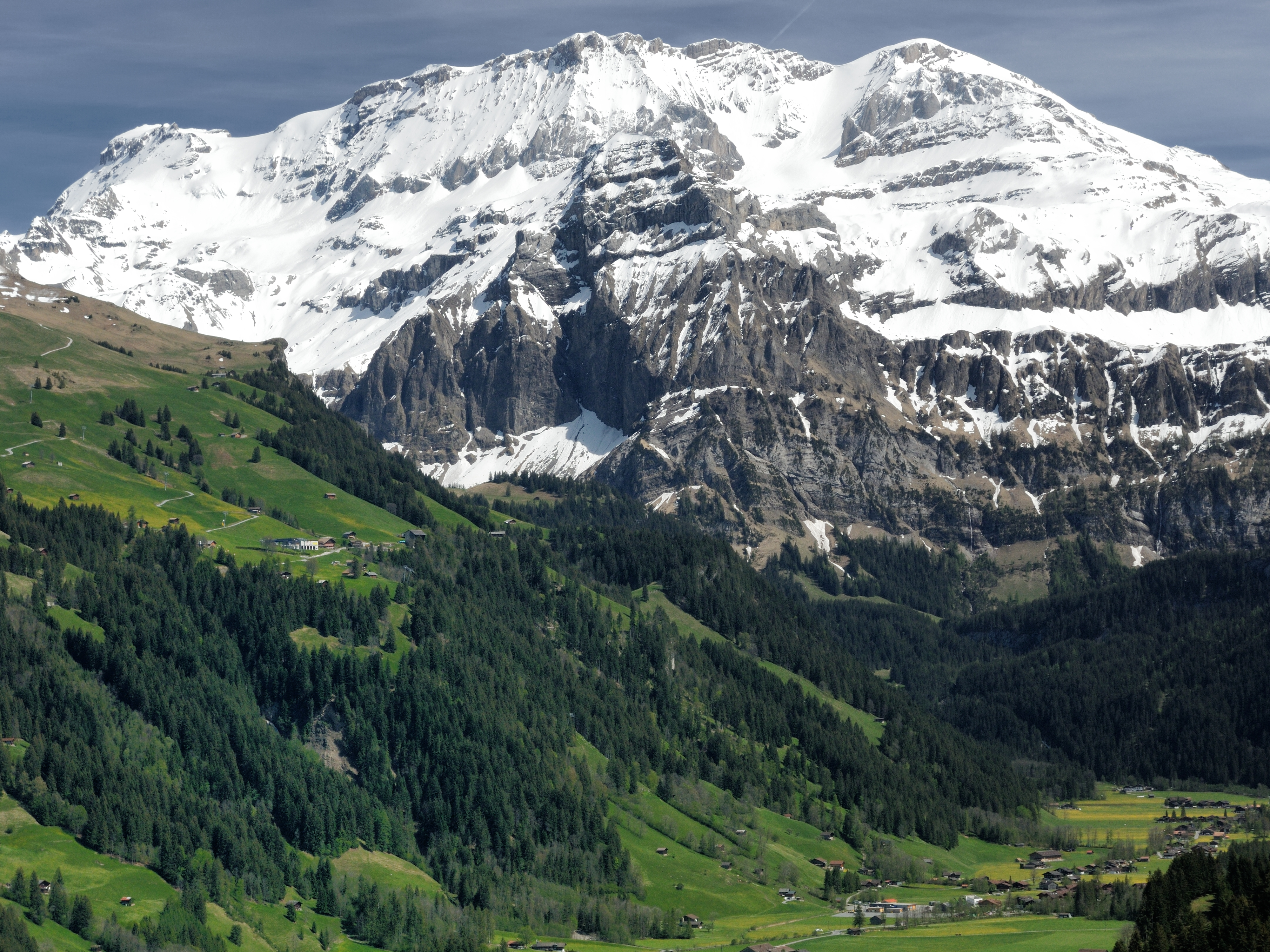 Wildstrubel from above Lenk (Underflösch)